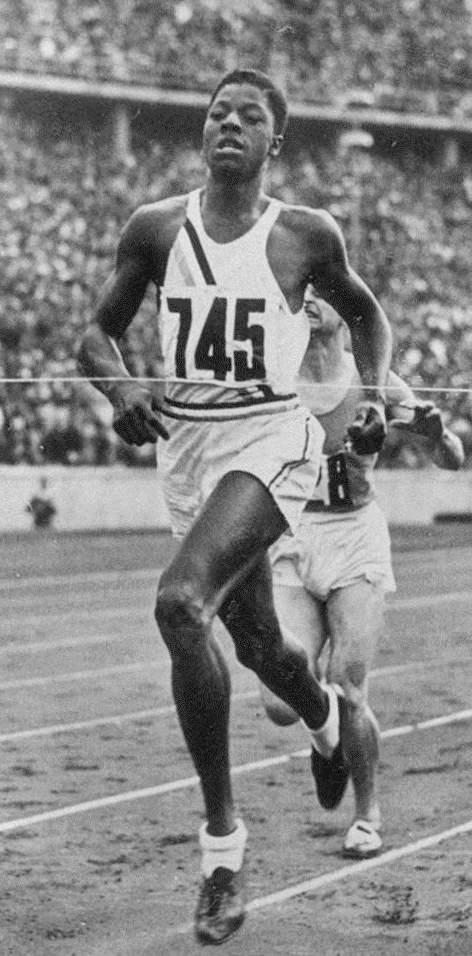 John Woodruff #745 of the USA crosses the finishing line followed by Mario Lanzi of Italy during the 800 metres event at the 1936 Olympic Games in Berlin.